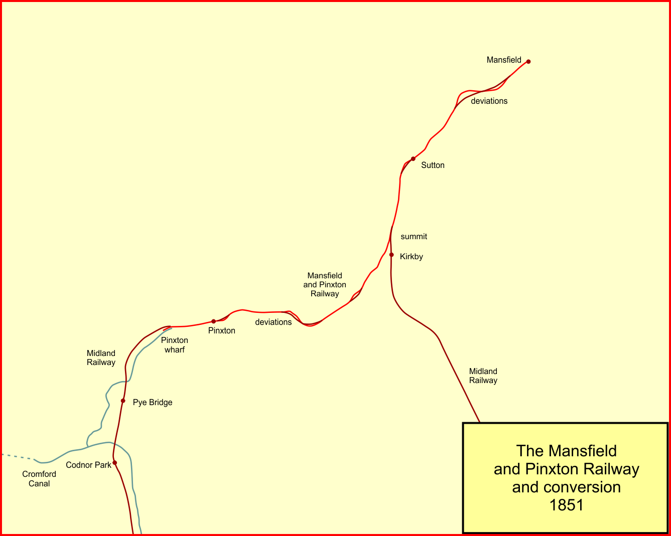 System map of the Mansfield and Pinxton Railway, showing Midland Railway modifications to 1951. Nottinghamshire and Derbyshire UK